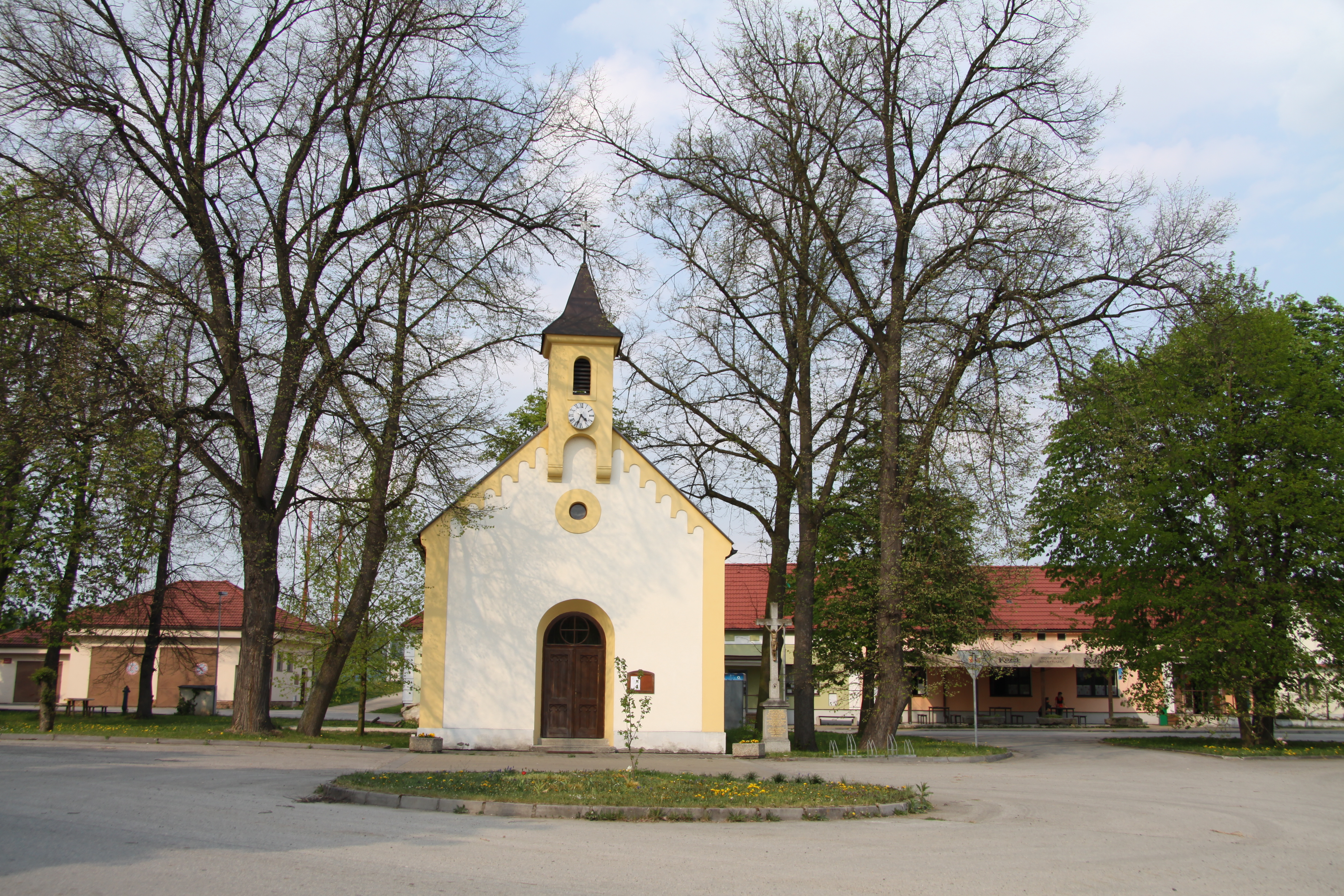 Chapel, Mydlovary village, České Budějovice District, Czech Republic